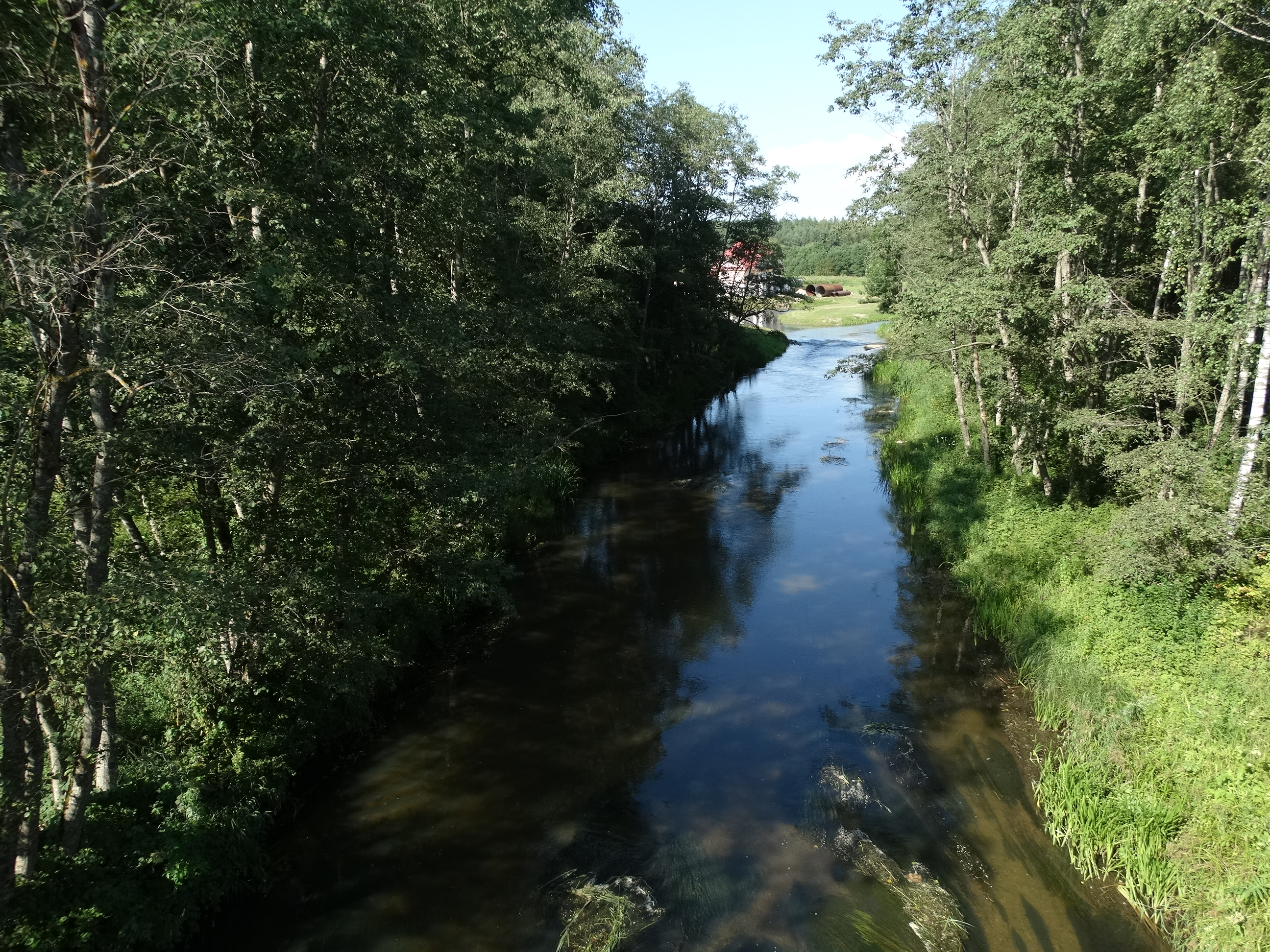 Siesartis River, Ukmergė district, Lithuania